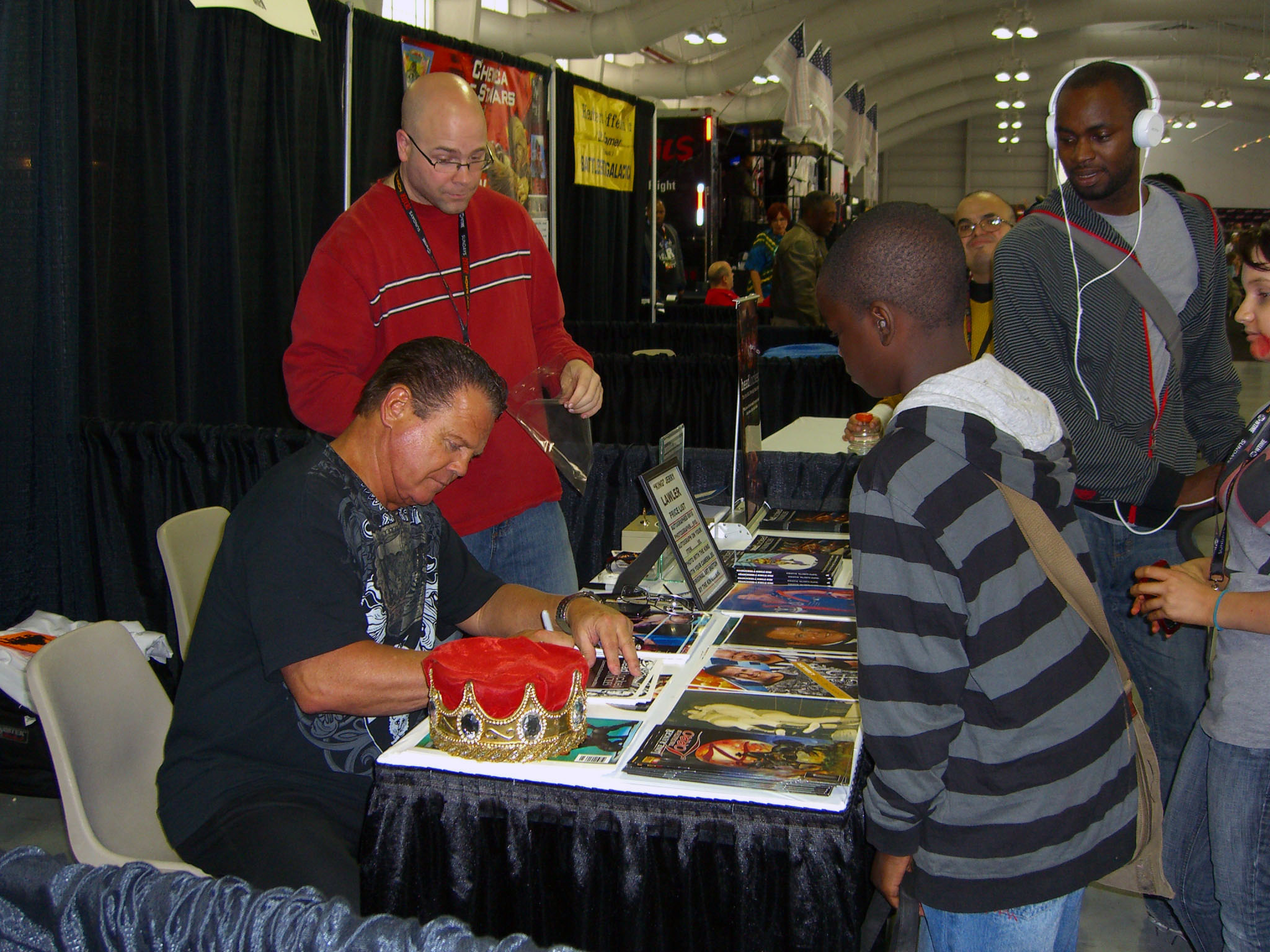 Professional wrestler Jerry Lawler at the New York Comic Convention in Manhattan, October 16, 2011. This photo was created by Luigi Novi. It is not in the public domain, and use of this file outside of the licensing terms is a copyright violation.